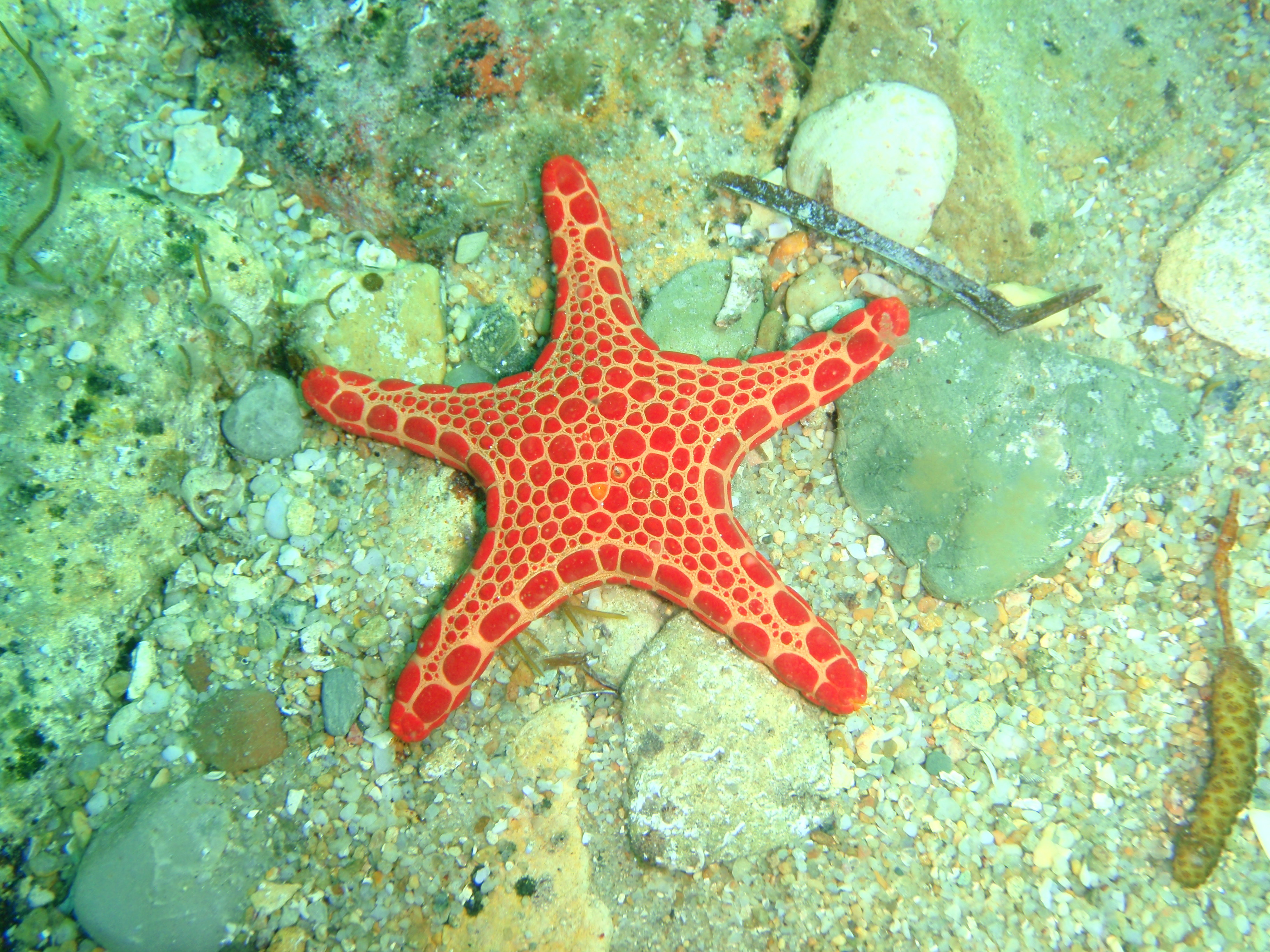 Vermilion biscuit star Pentagonaster dubeni at the reef off the beach at Carrickalinga, South Australia